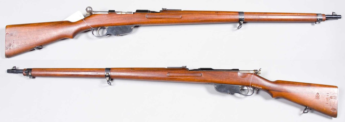 Mannlicher M1895 rifle.